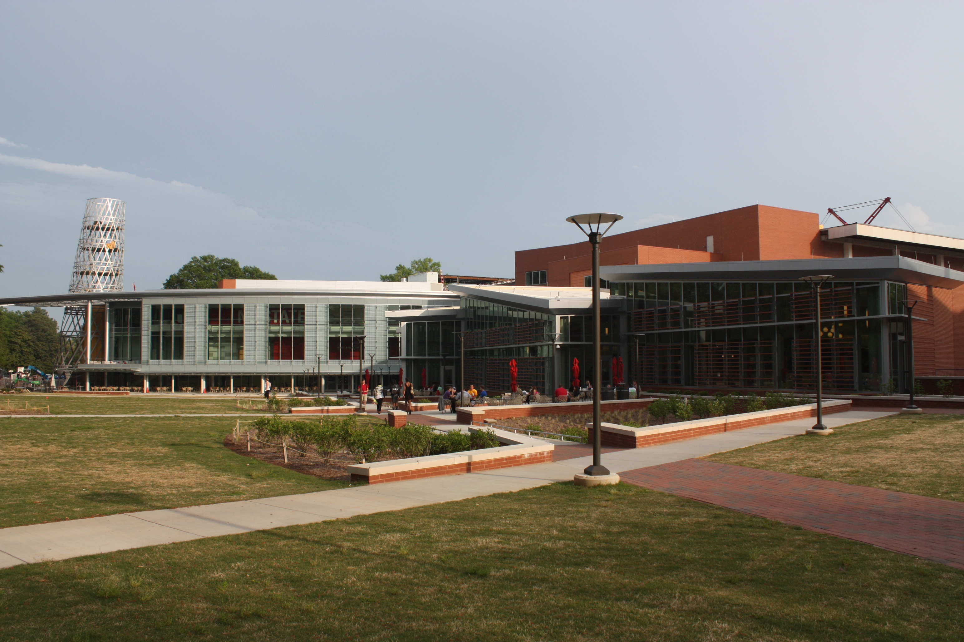 The Talley Student Center located on the North Carolina State University campus is a center for students to enjoy various activities. These activities include eating, attending events, studying, etc.